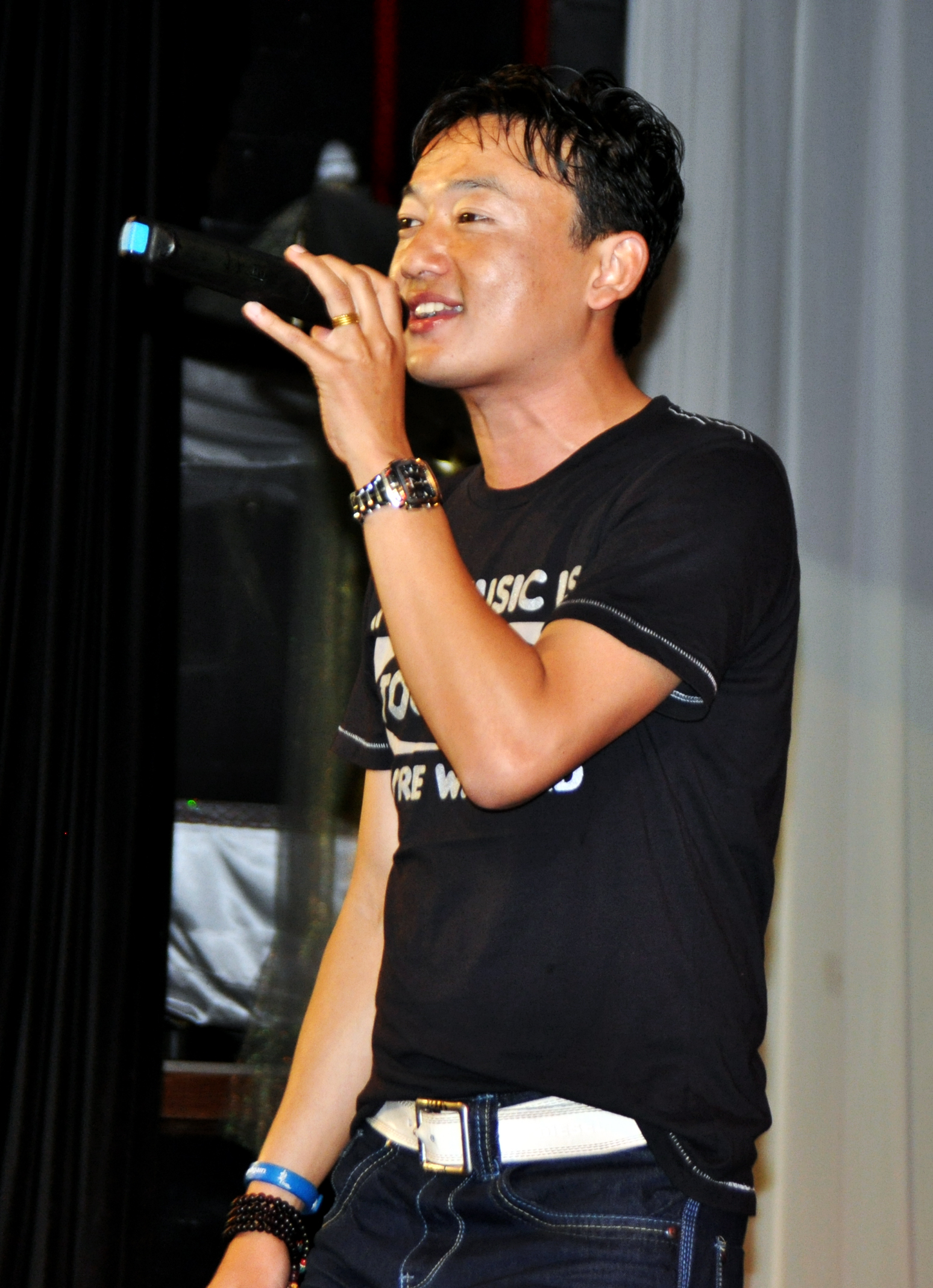 Deepak Limbu performing at Losar, New Year organised by Tamu Samaj Australia in Sydney 2011.